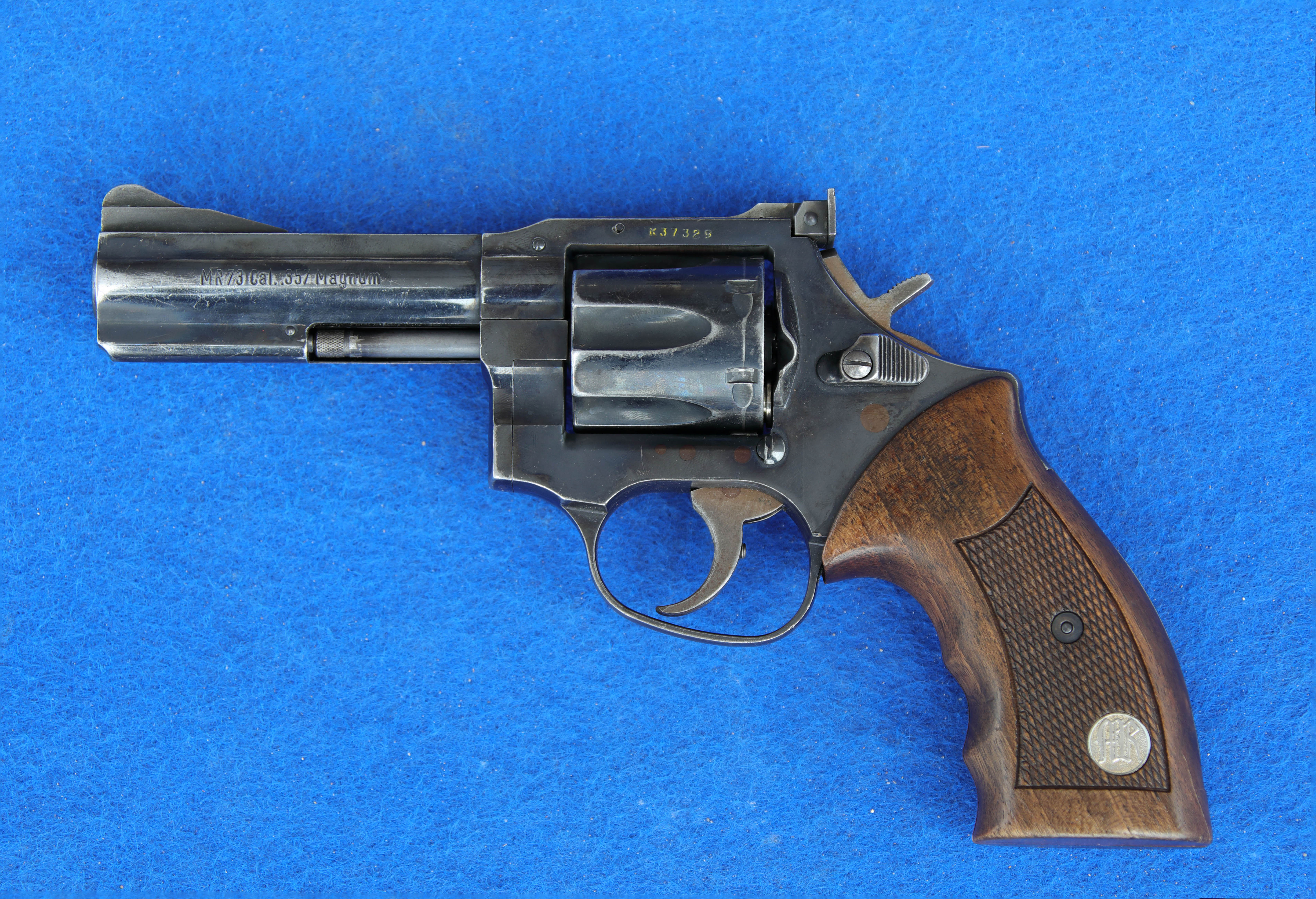 GIGN's traditional Manurhin MR 73 revolver issued to every new member.